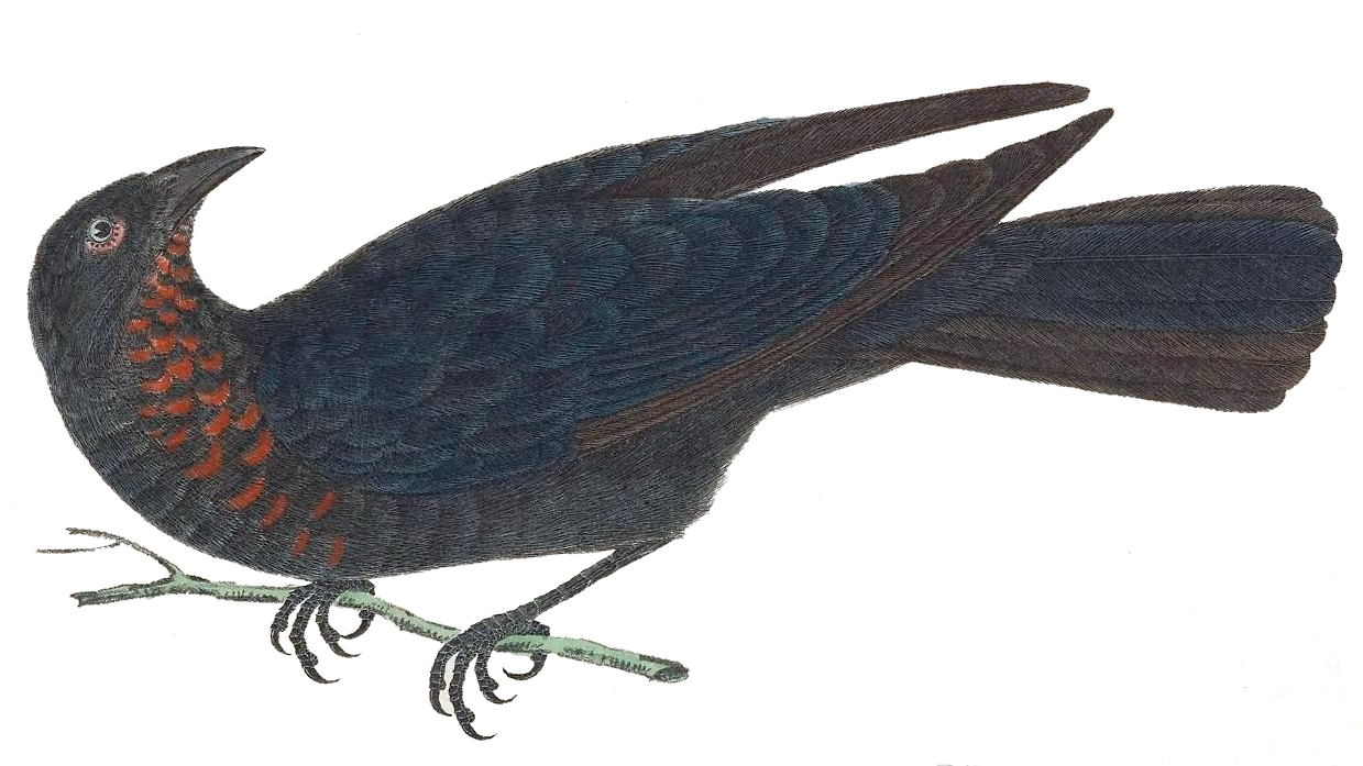 Compsothraupis loricata. Avium species novae, quas in itinere per Brasiliam annis MDCCCXVII-MDCCCXX /. Monachii :Typis Franc. Seraph. Hübschmanni,1824-1825..